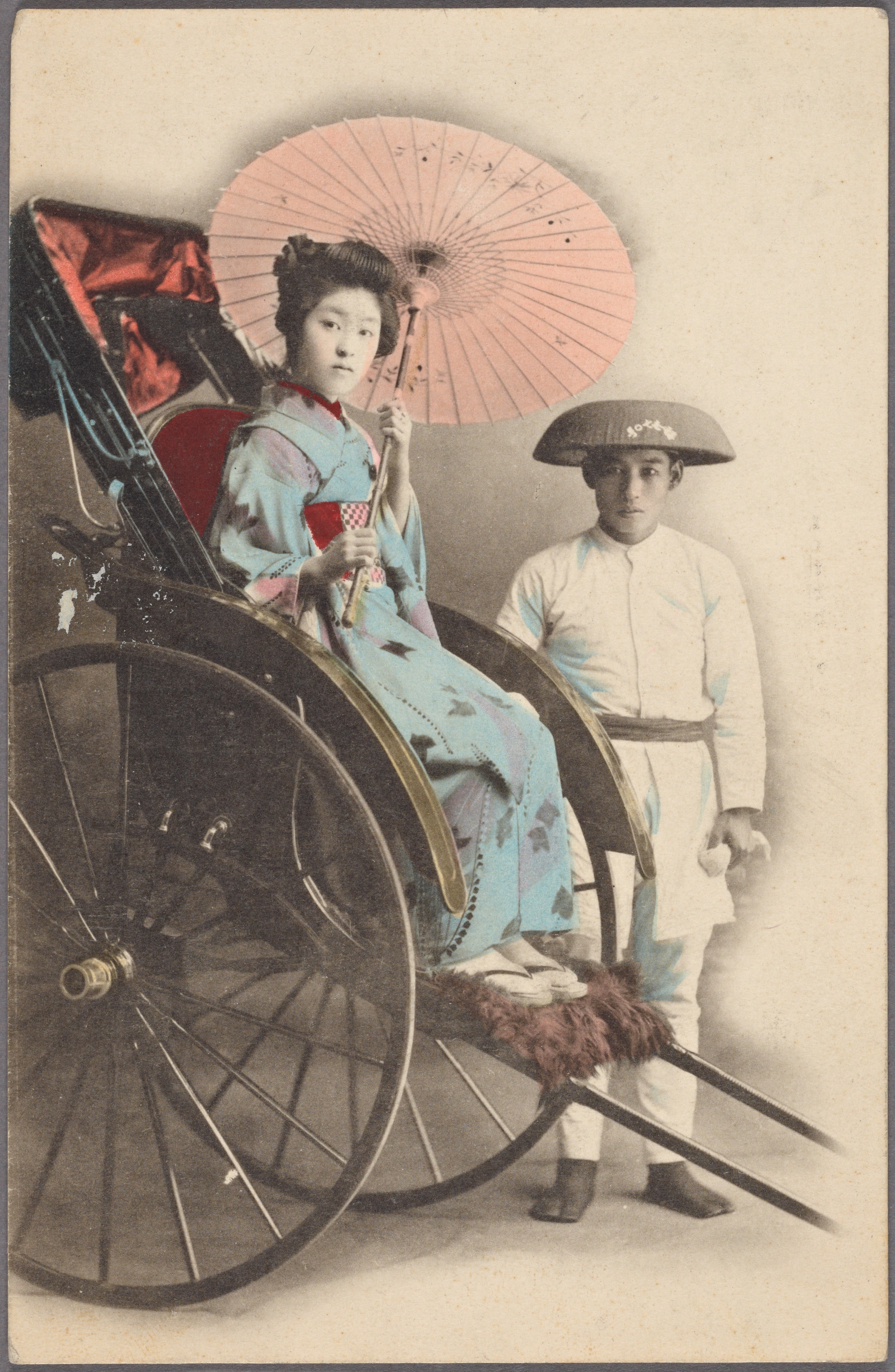 Studio portrait of young woman in ricksaw posed with driver.